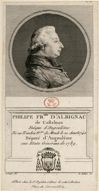 Philippe-François d'Albignac de Castelnau (1742-1814) by Charles Toussaint Labadye after a painting by Charles-François Le Tellier. Labadye made a full series of the members of the National Constituent Assembly of 1789.